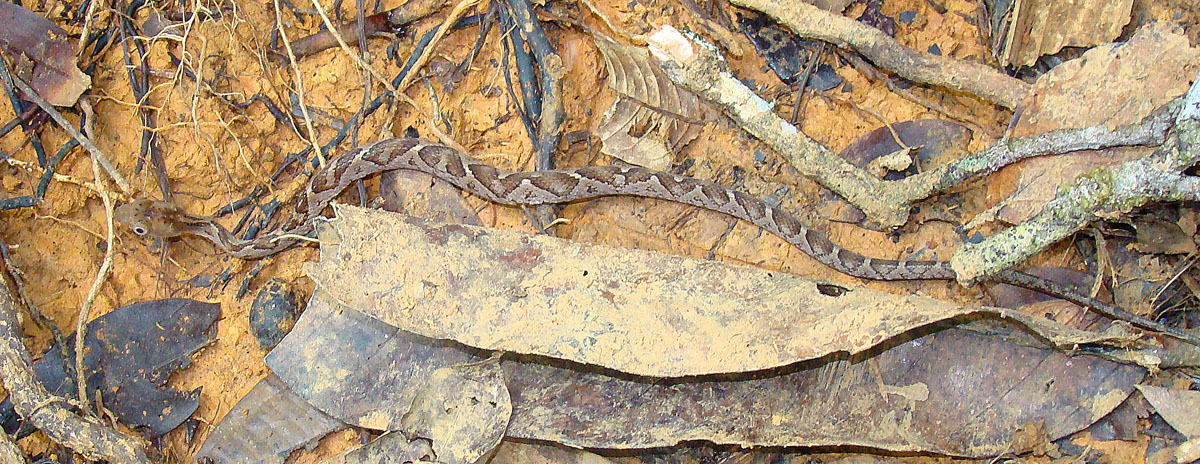 Forest Racer (Dendrophidion nuchale). From the Kuna Yali border, Panama.